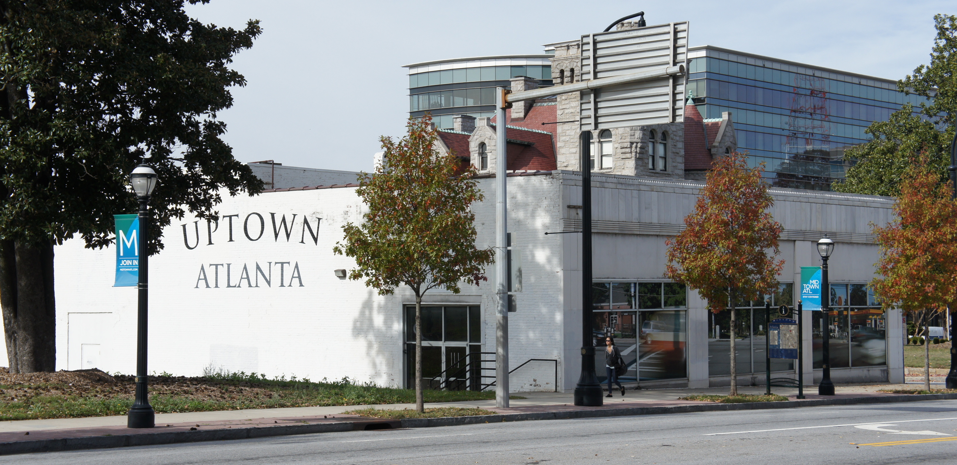 Remaining building of Rhodes Center, 2011. Rhodes hall (grey stone) is visible behind it. Taken from the southeast, from across Peachtree Street. Developer plans to promote the area as " Uptown Atlanta".